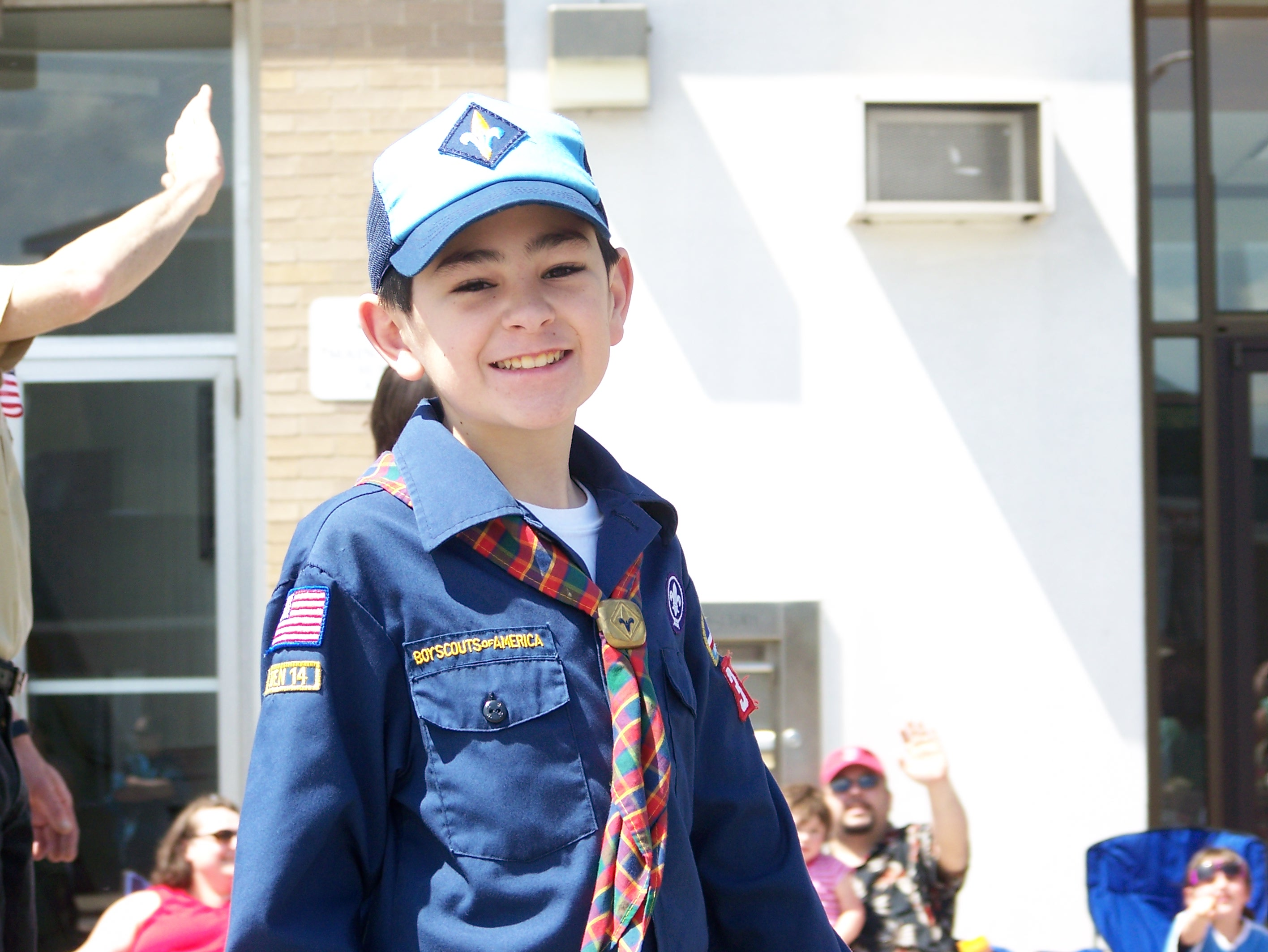 Cub Scout Pride, Memorial Day Parade, Springvale, Maine